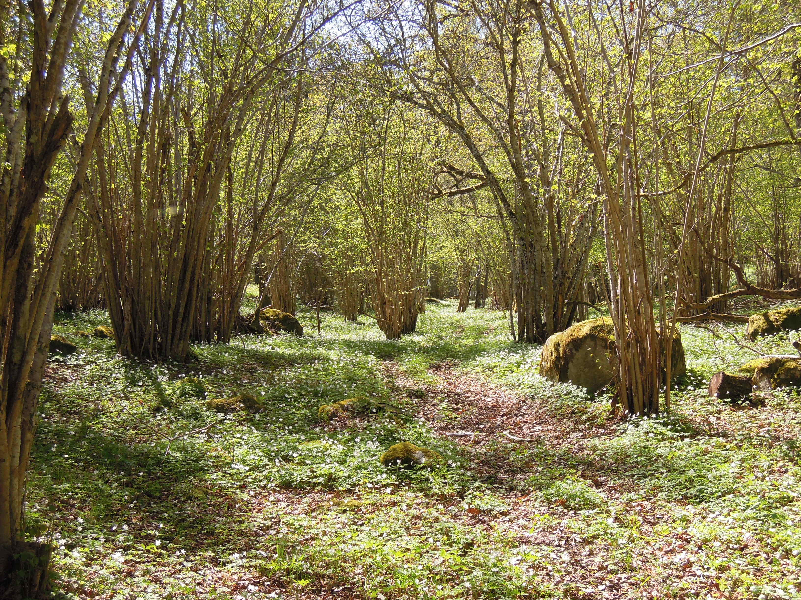 The hazel wood in the south east part of Aggarön